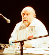 Andrew Kliman DPU :: May Day School 2013 :: Andrew Kliman